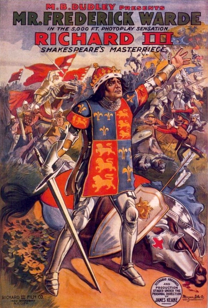 Movie poster for Richard III